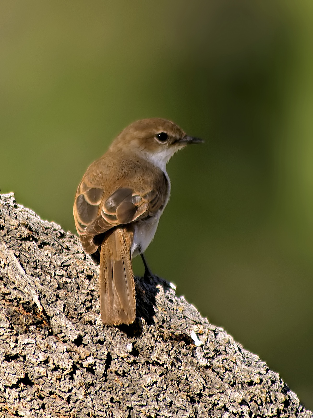 Marico Flycatcher at Okaukuejo, Etosha, Namibia